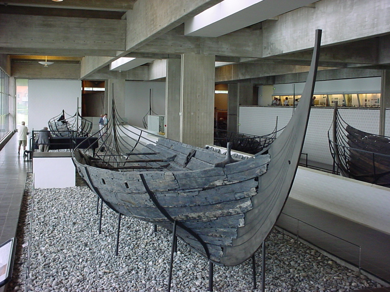 The 'Skuldelev 3' ship at the Viking Ship Museum in Roskilde, Denmark